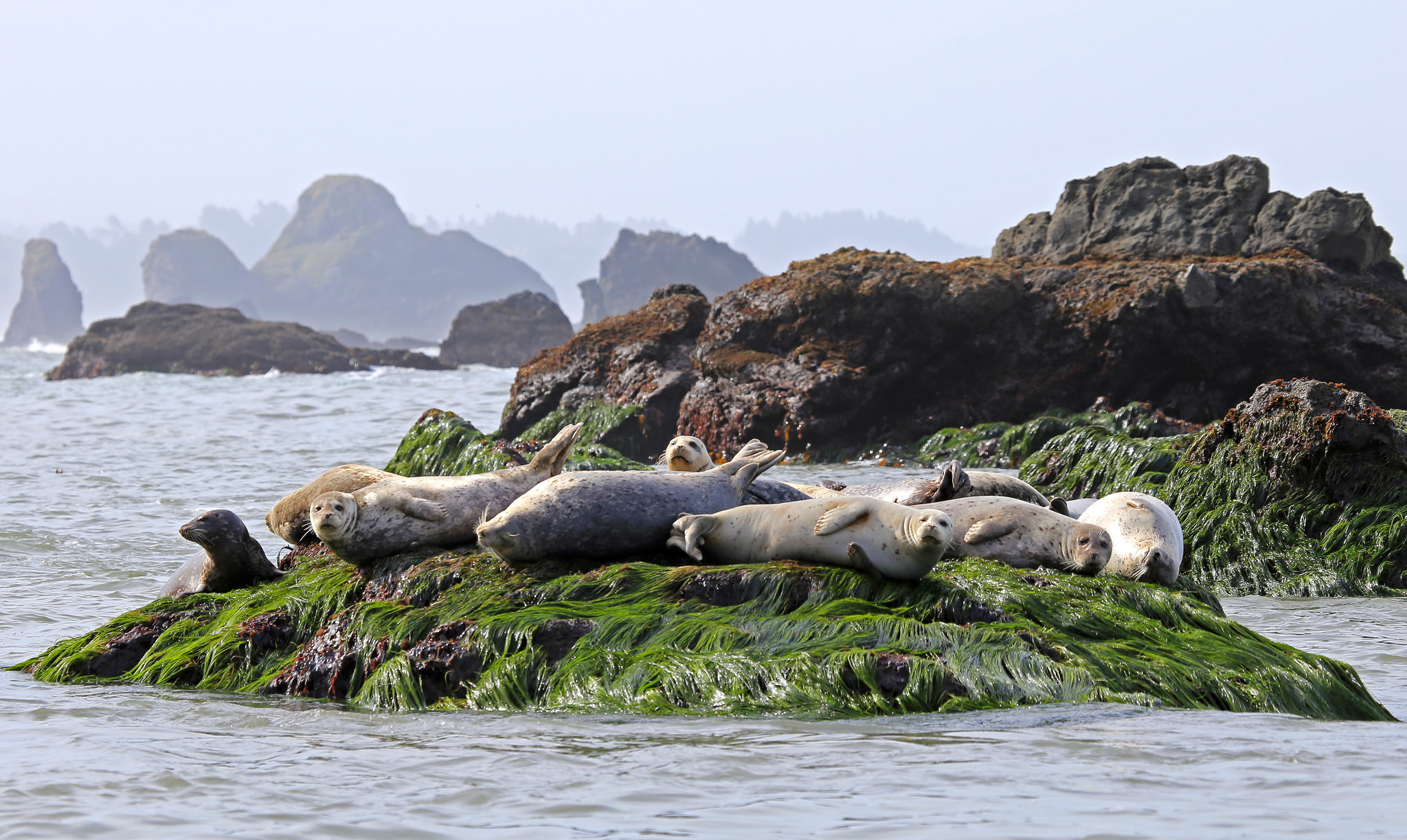 Located off the 1,100 miles of California coastline, the California Coastal National Monument comprises more than 20,000 small islands, rocks, exposed reefs, and pinnacles between Mexico and Oregon. The California Coastal National Monument is a biological and scenic treasure. Its thousands of islands, rocks, exposed reefs, and pinnacles are part of the near shore ocean zone, which begins just off shore and ends at the boundary between the continental shelf and continental slope. The Monument, established by presidential proclamation in 2000, provides feeding and nesting habitat for an estimated 200,000 breeding seabirds, as well as forage and breeding habitat for marine mammals including the southern sea otters and California sea lions. For more information visit